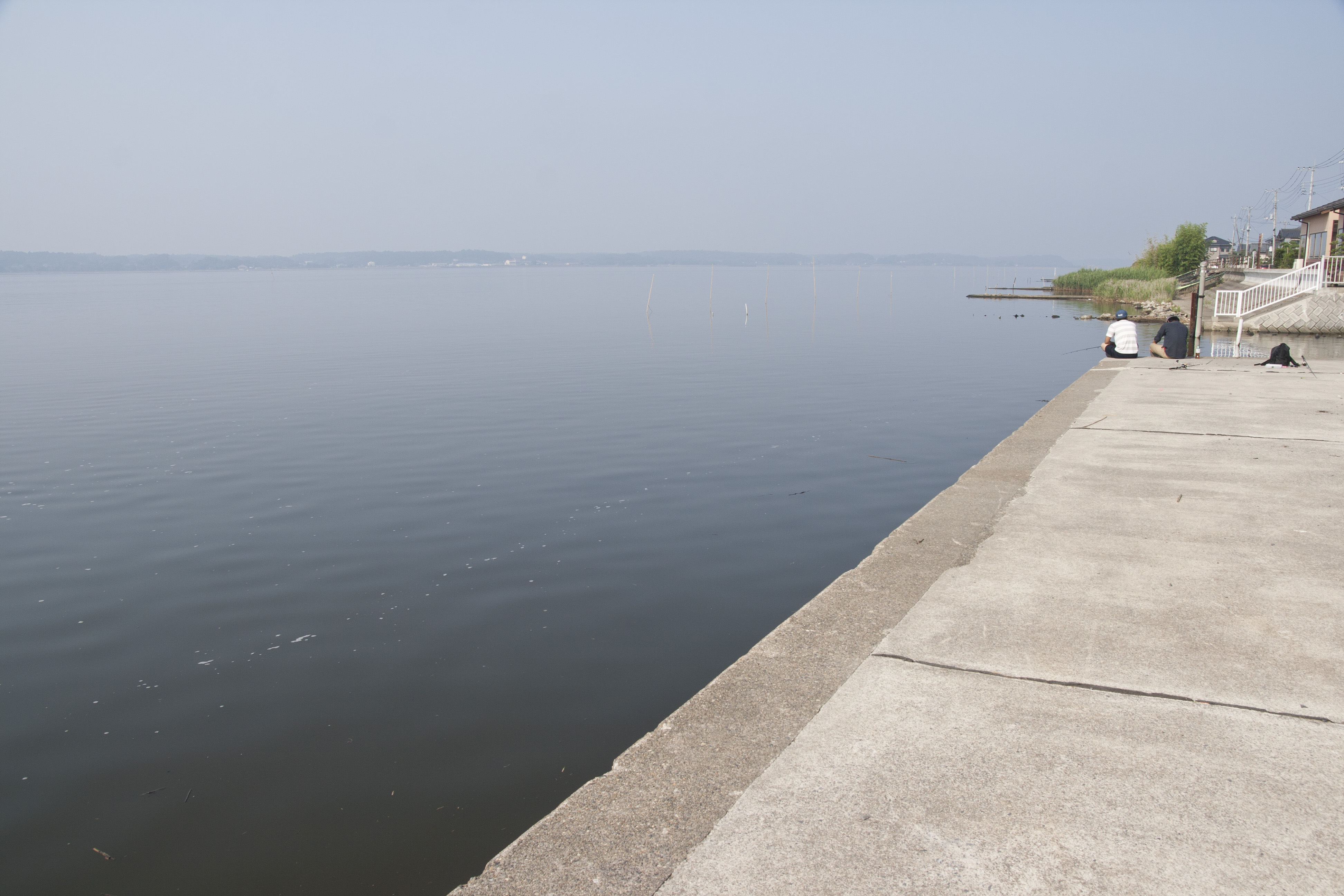 Lake Hinuma in Ibaraki Town, Ibaraki Prefecture, Japan